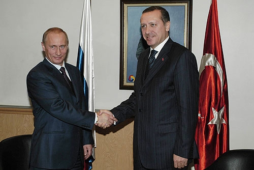 Russian president Vladimir Putin and Turkish Prime Minister Recep Tayyip Erdoğan